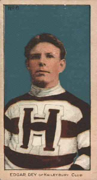 C56 Edgar Dey hockey card